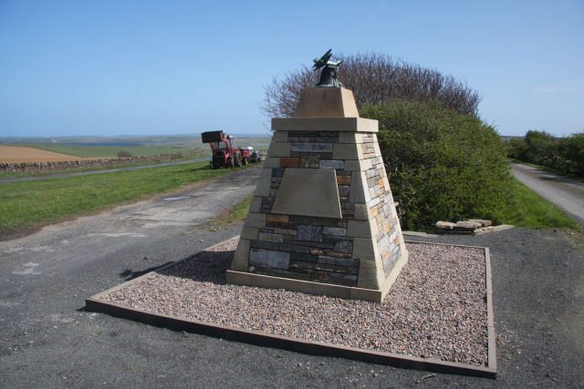 Monument at Wideford Farm This monument celebrates the first scheduled air service from Inverness to Kirkwall by Edmund (Ted) Fresson in 1933. The airport was then located at Wideford Farm, up the hill from the present Kirkwall Airport. The plaque on the monument states: "On 8th May 1933 Capt Ted Fresson in Highland Airways Monospar G-ACEW landed the first scheduled air service from Inverness on this site which was Orkney's first aerodrome"